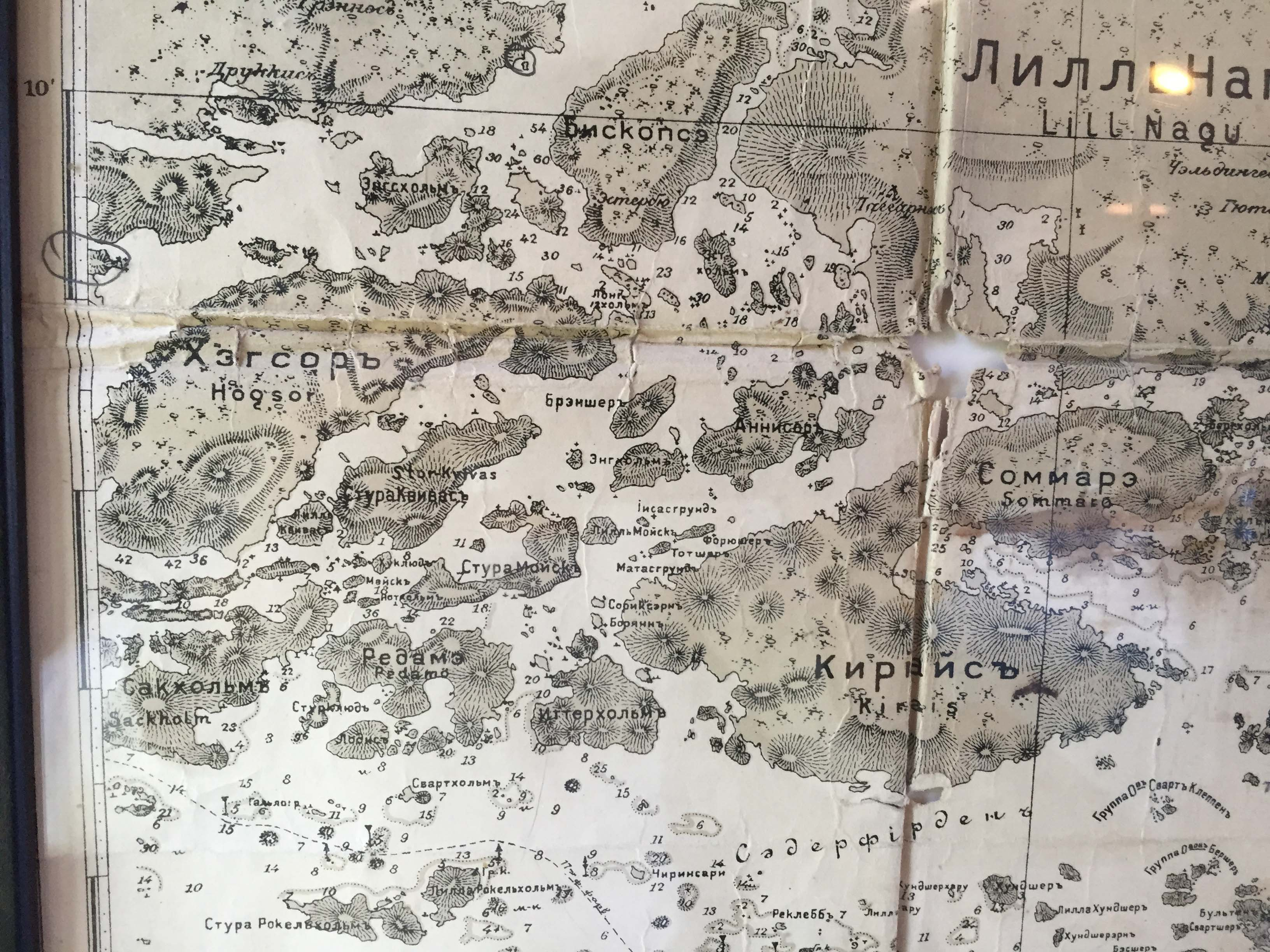 Russian map within Nagu